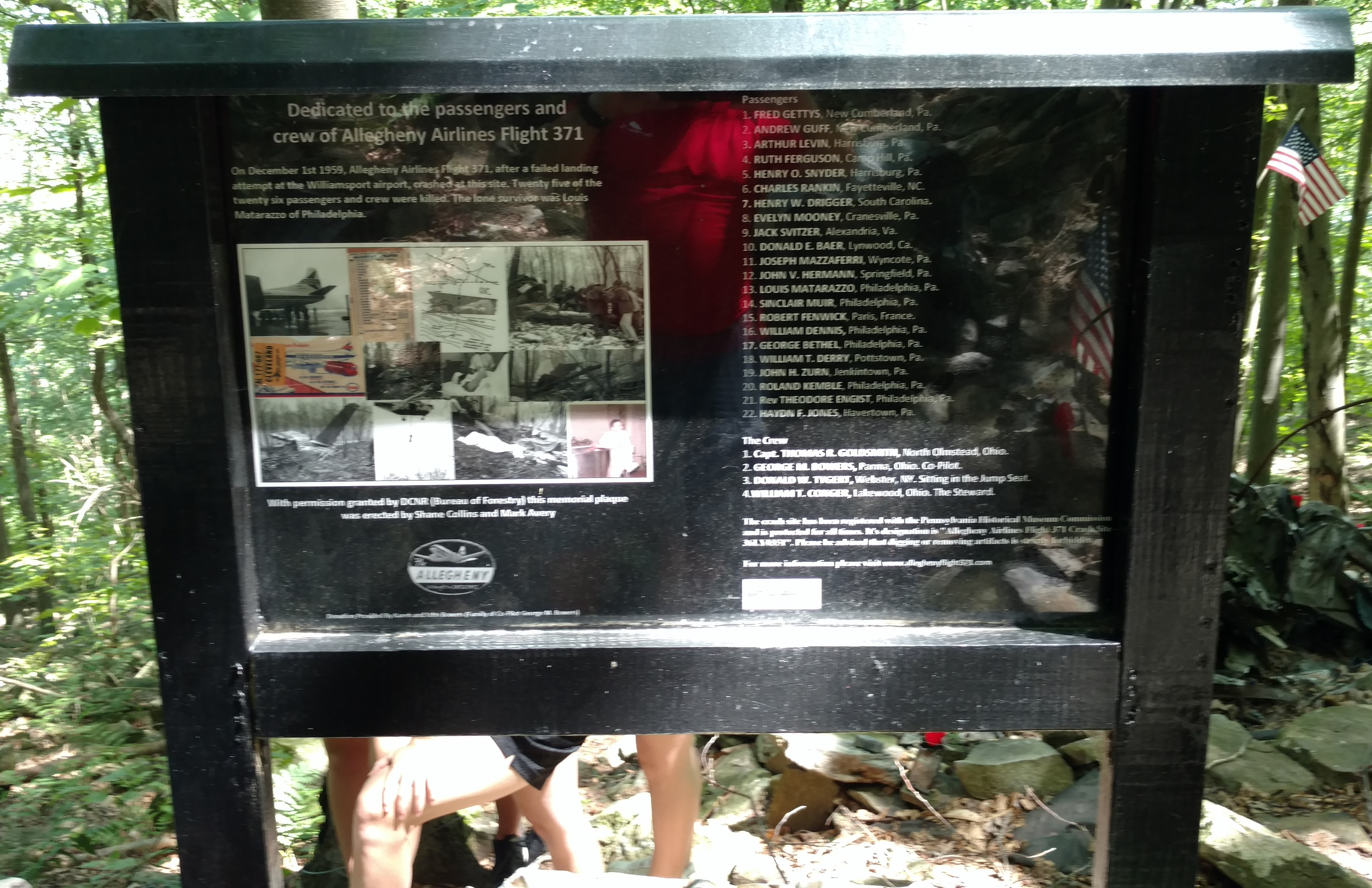 Memorial dedicated to the passengers and crew of Allegheny Airlines Flight 371